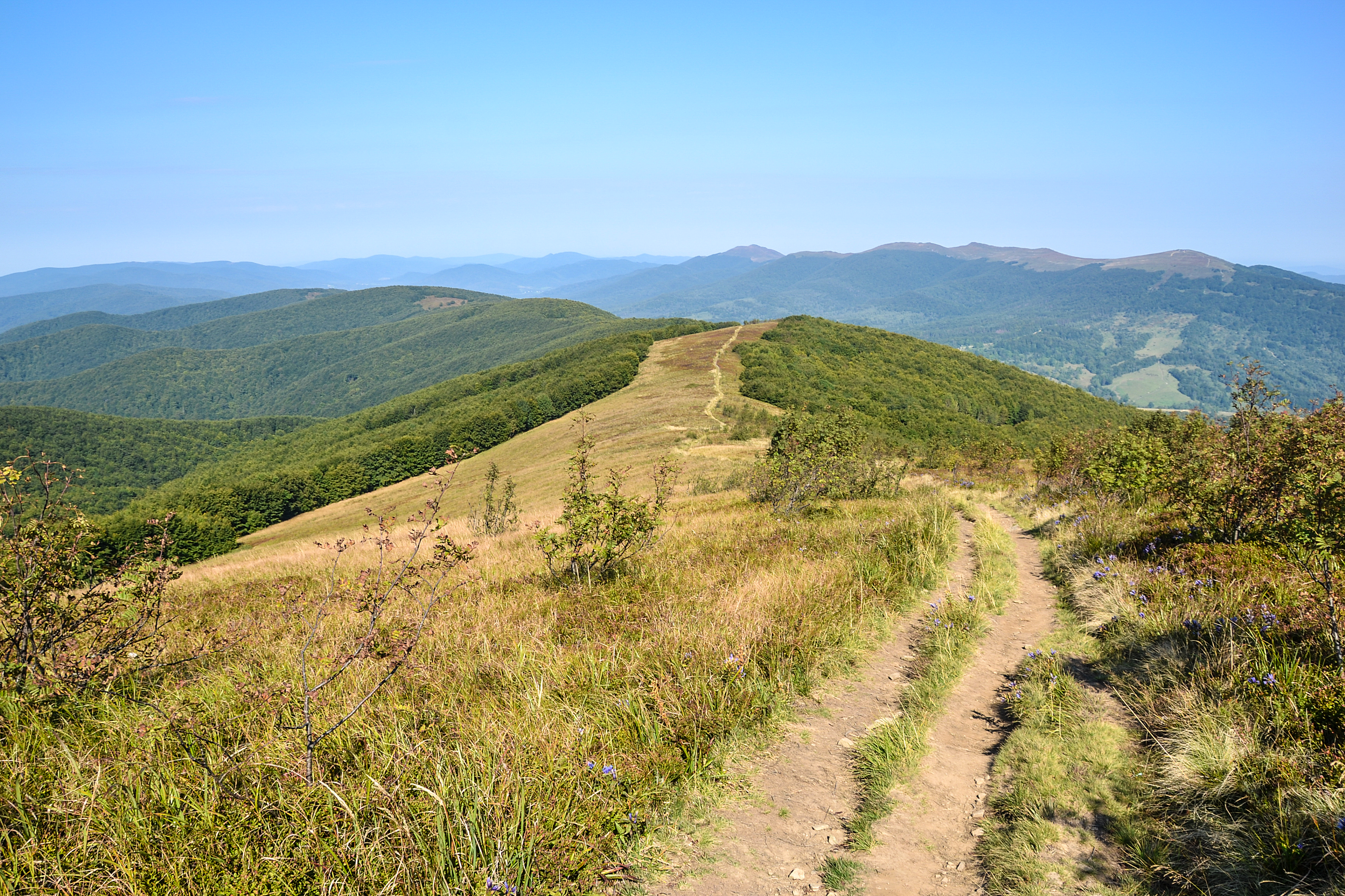 Dział, Bieszczady mountains, Poland